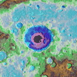 Topographic map of Rachmaninoff Basin on Mercury. Blue is low and red is high. Dark color at center is about 5 km below global average.